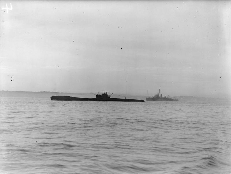 After Initial Disaster - British Submarine "thunderbolt's" Record of Success. 7 February 1943, Malta. Starting Her Life With a Terrible Mishap, HMS Thunderbolt - Ex-"thetis" - Has Had a Glorious Record of Victory and Success. the "thetis" Sunk during Trials in 1939 and 99 Lives Were Lost. She Was Salvaged by a Skilful Feat of Engineering and Went on Active Service As the HMS Thunderbolt. Going From One Success To Another She Has Destroyed 2 U-boats and 5 Enemy Supply Ships, Bombarded Enemy Positions and Rescued 43 Torpedoed Merchant Seamen With Their Dog in the Mediterranean. HMS THUNDERBOLT at sea.